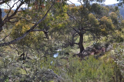 Picture of typical Scottsdale flora